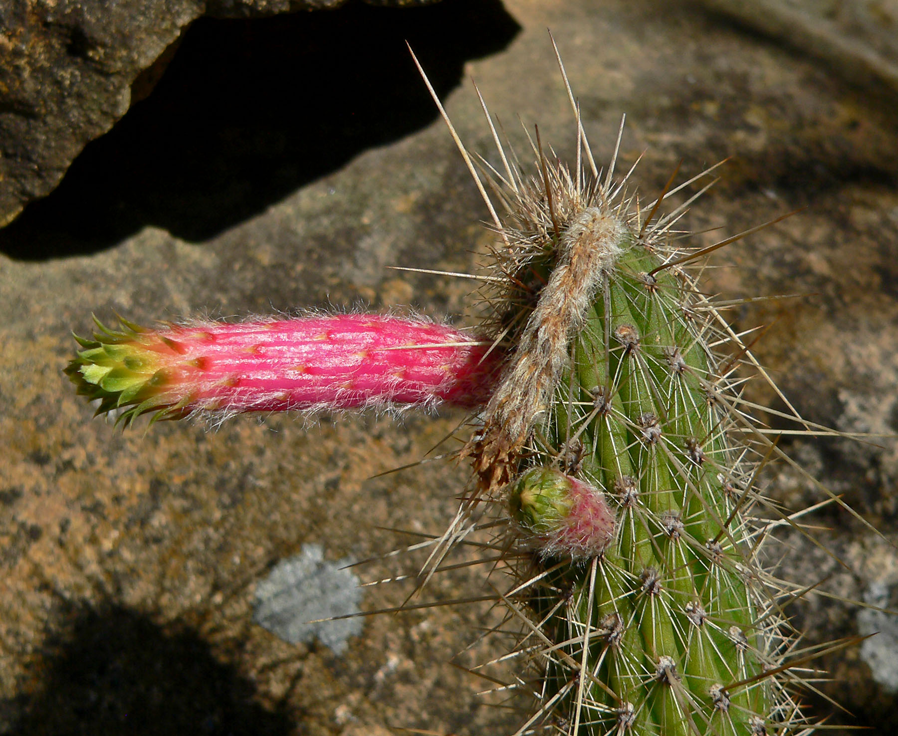 Cleistocactus smaragdiflorus at the University of California Botanical Garden, Berkeley, California